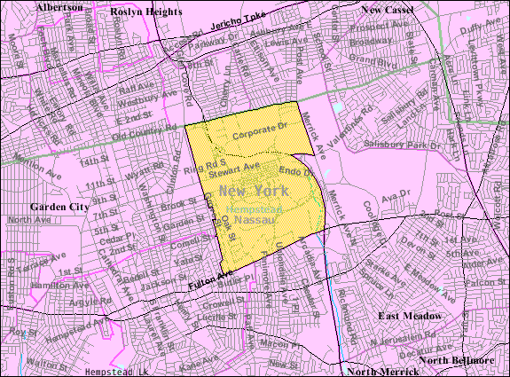 U.S. Census 2000 reference map for East Garden City, New York